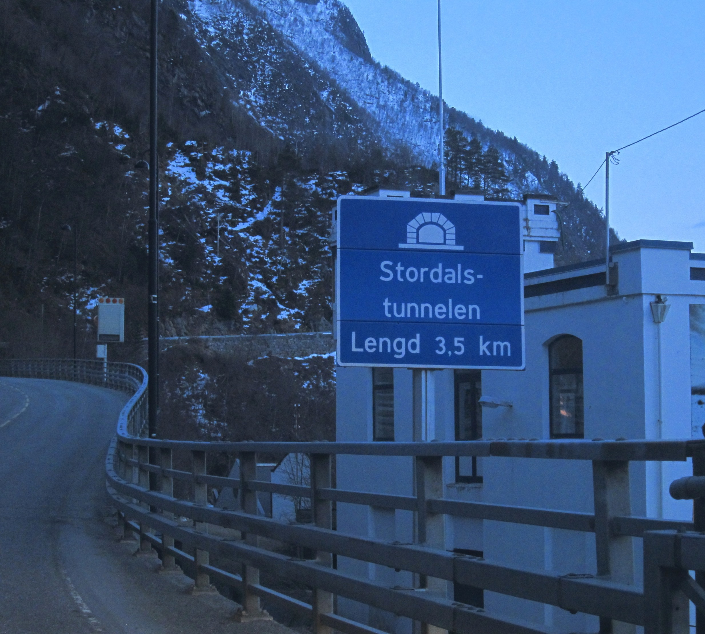 Dyrkorn on road 650 in Møre og Romsdal county, Norway